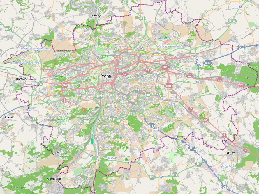 Map of Prague (using )